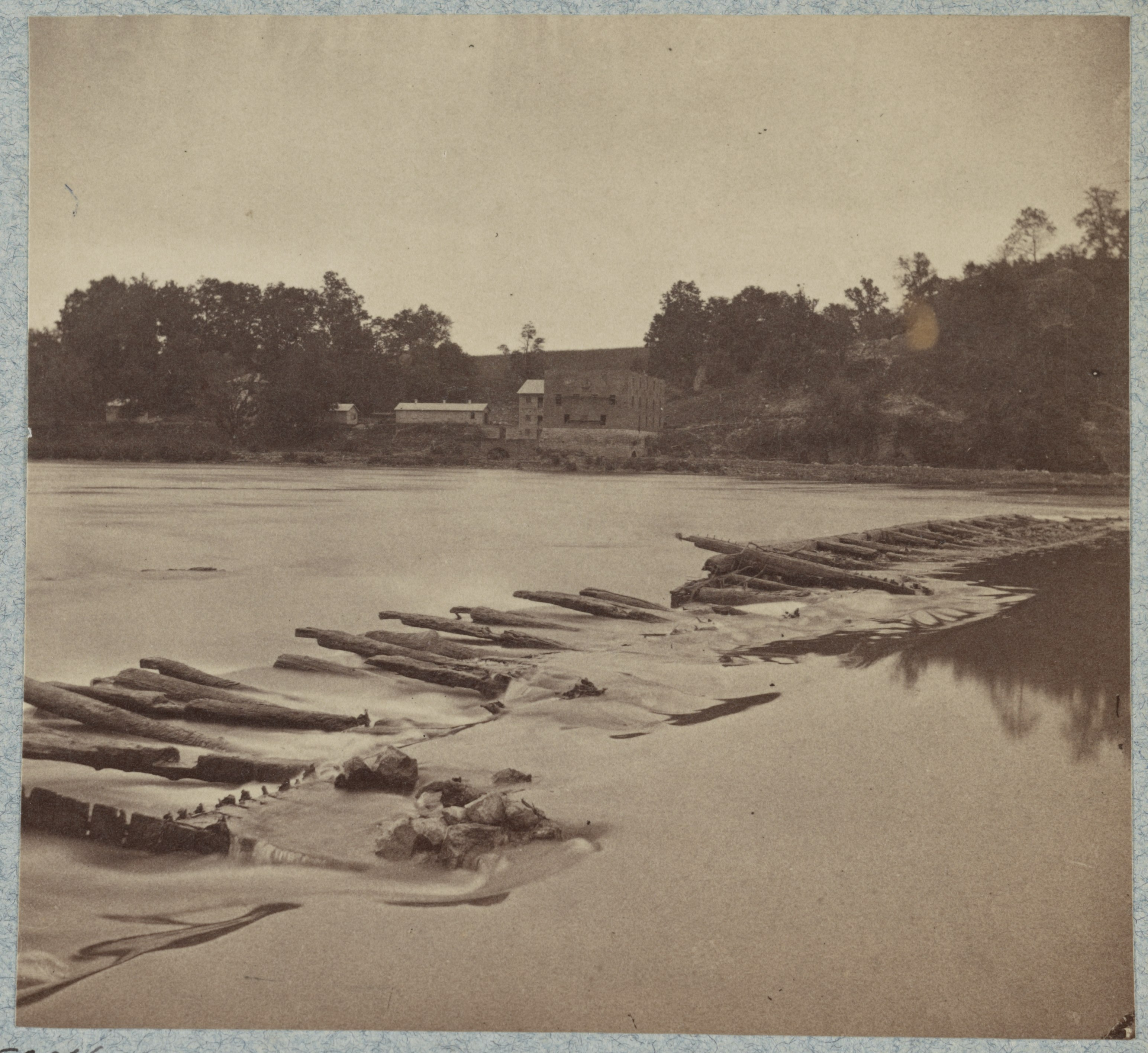 Title: Boteler's Ford, Potomac River near Shepherdstown. Point at which Confederate Army crossed after battle of Antietam Physical description: 1 photograph : albumen print on card mount. Notes: Photograph is half of a stereograph pair.; Mounted with five other photographs.; No. 5076.; Gift; Col. Godwin Ordway; 1948.; Title from item.